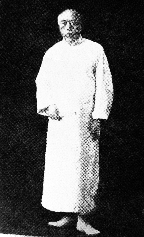 Ma Zhongjun